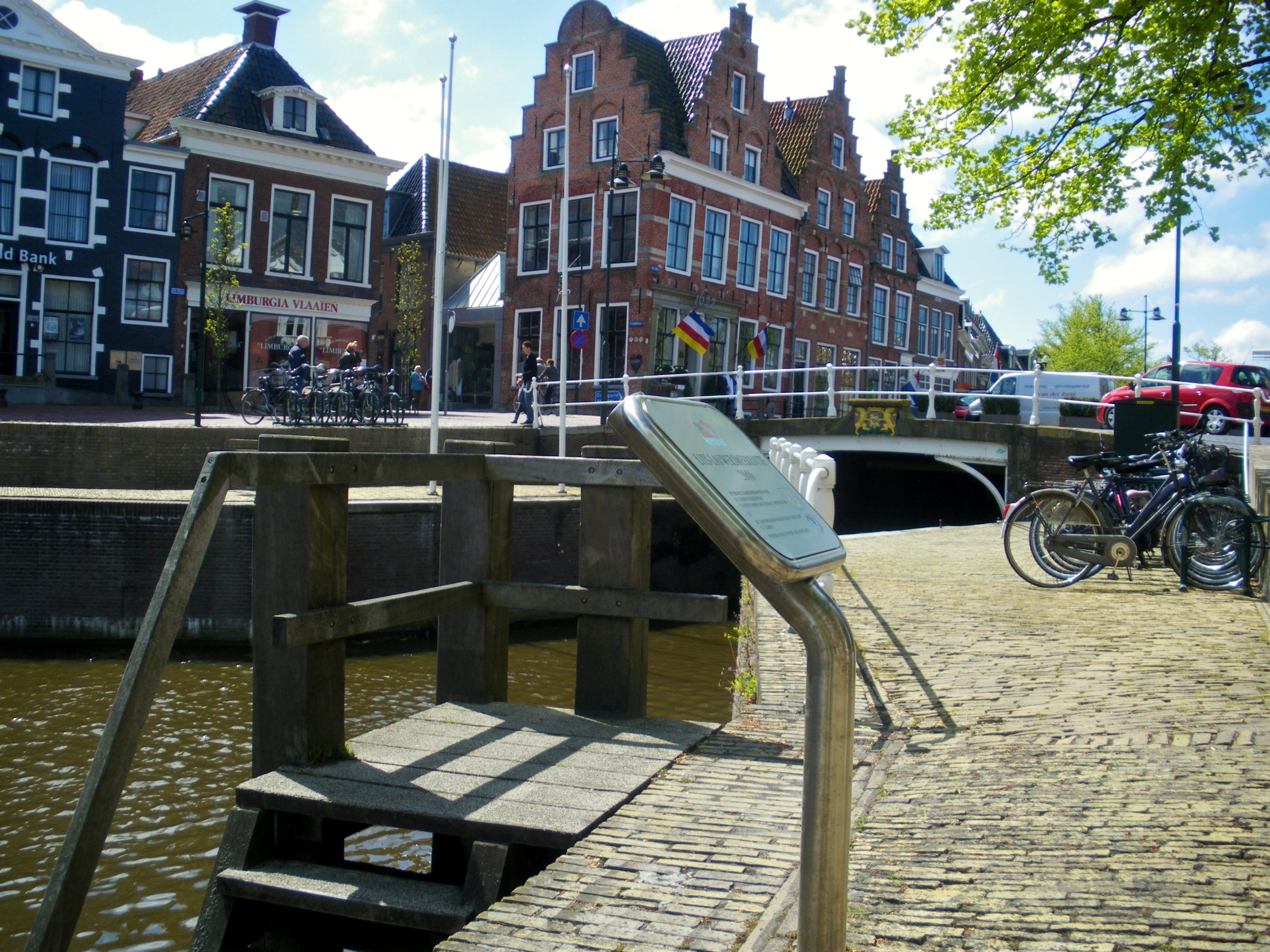 De Zijl bridge in Dokkum with the Dokkumer Grootdiep flowing underneath.